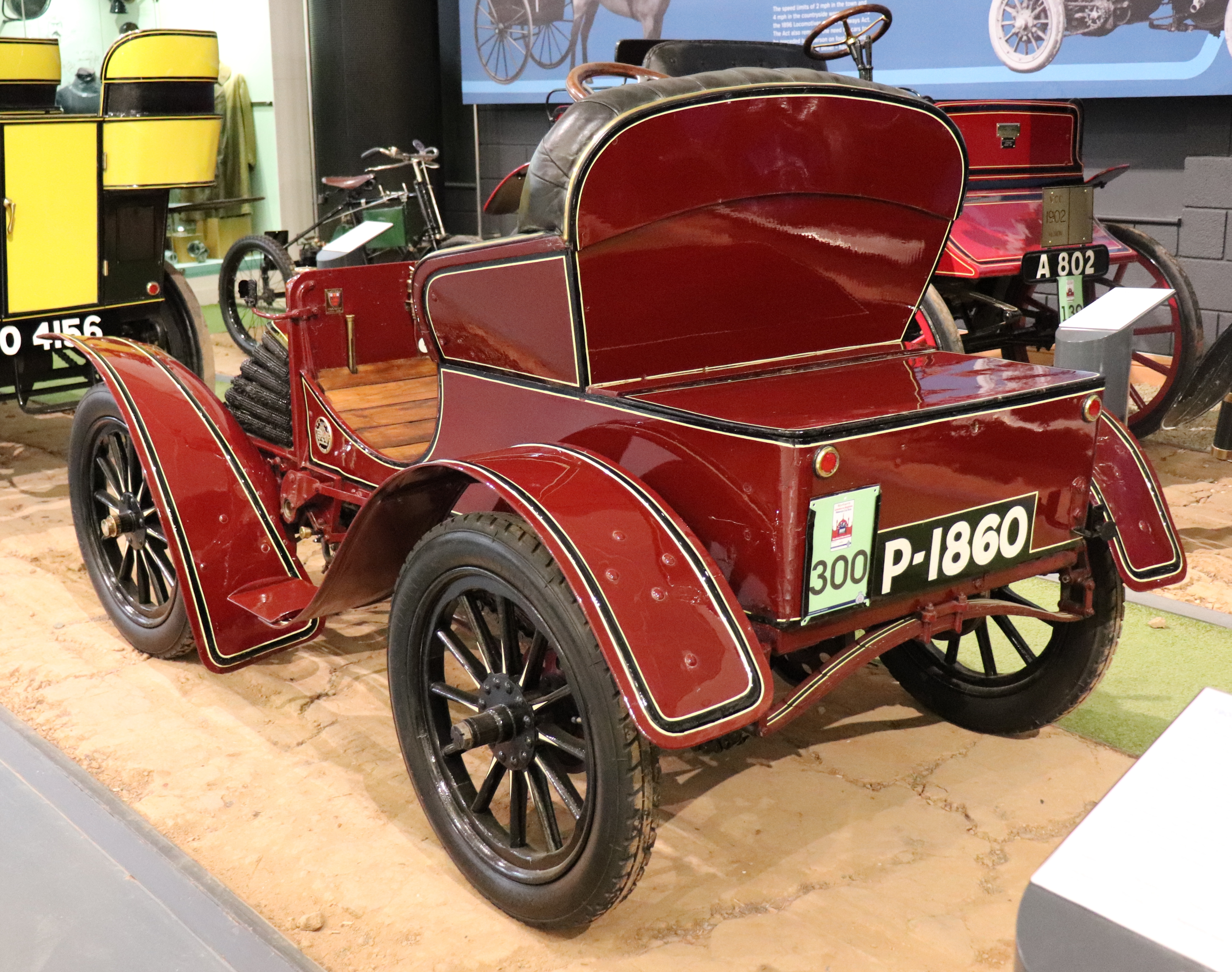 1904 Wolseley 6HP Phaeton 1.3 Rear Taken at the British Motor Museum, Gaydon